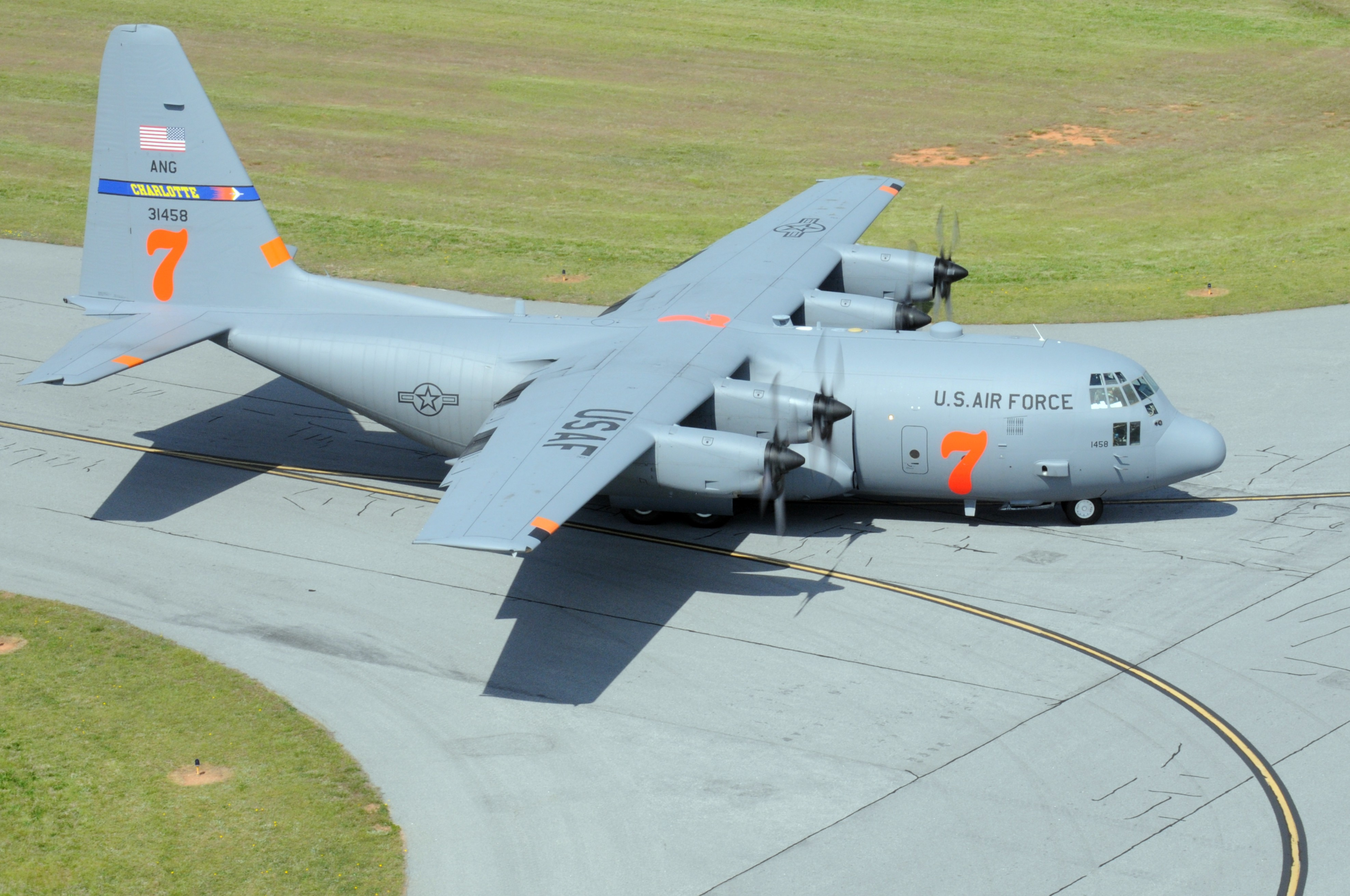 A U.S. Air Force Lockheed C-130H Hercules (s/n 93-1458) from the 156th Airlift Squadron, 145th Airlift Wing, North Carolina Air National Guard, taxies at Greenville, South Carolina (USA), on 30 April 2010. Airmen from the North Carolina Air National Guard were training for use of the Modular Airborne Fire Fighting System (MAFFS) at the South Carolina Technology and Aviation Center in Greenville from 25 to 30 April, completing nearly 130 flying missions throughout the week over the Chattahoochee, Francis Marion, Pisgah, and Nantahala forests.